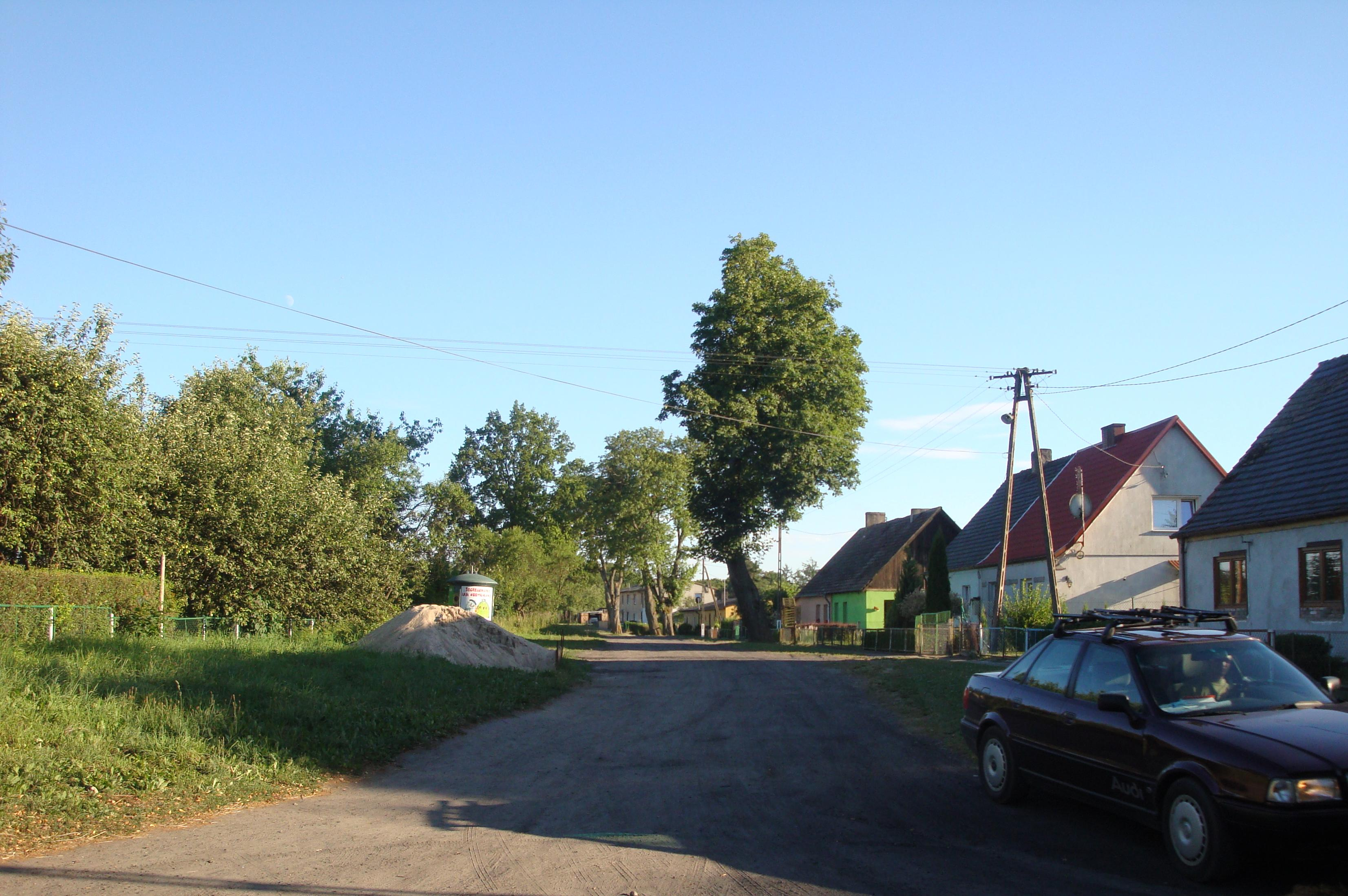 Podole Wielkie-village in Pomeranian Voivodeship, Poland.